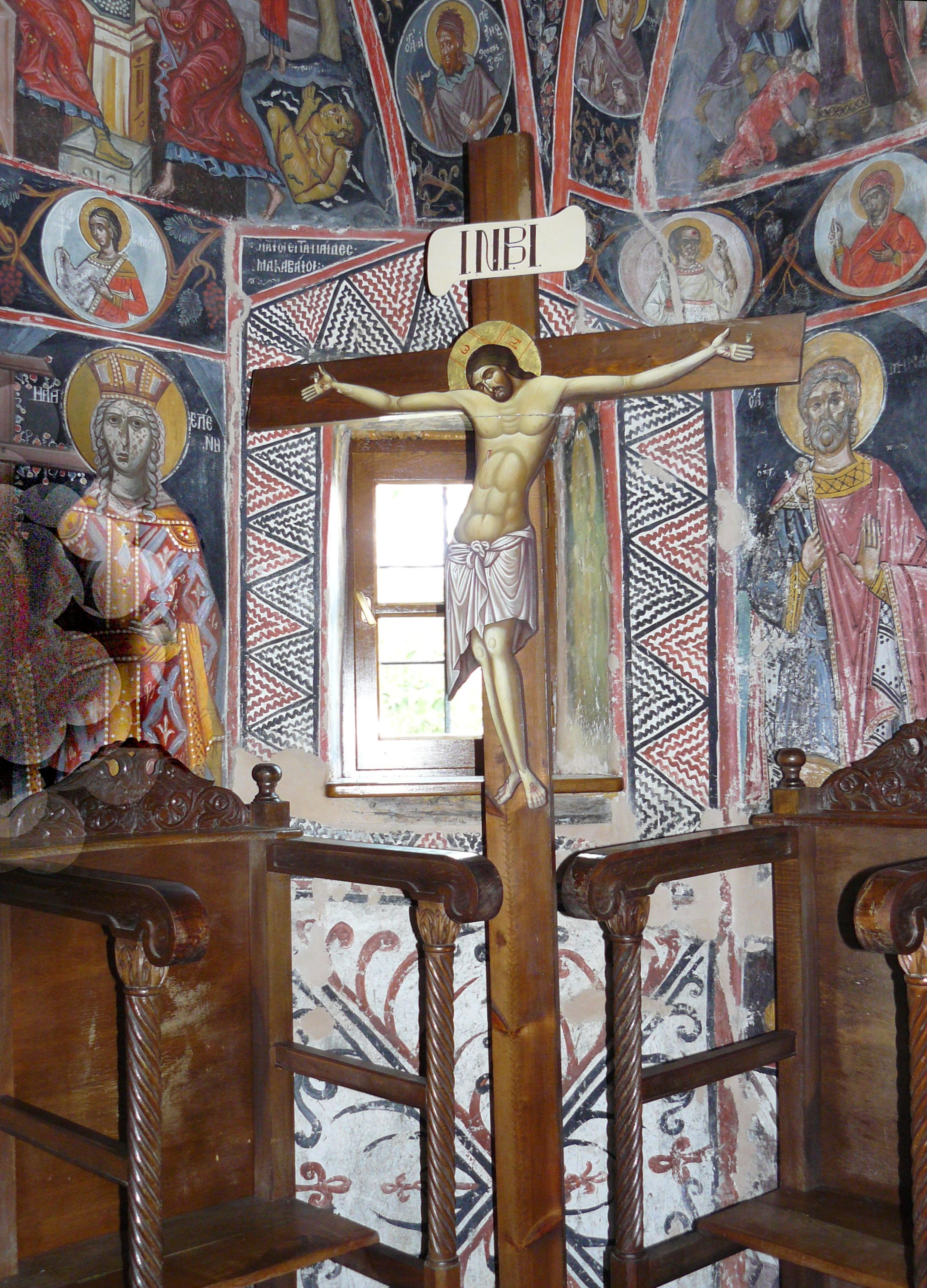 The Good Friday crucifix and frescoes on walls of the main temple (katholikon) in St. Trinity Monastery (Moni Agias Triados), Meteora, Greece.